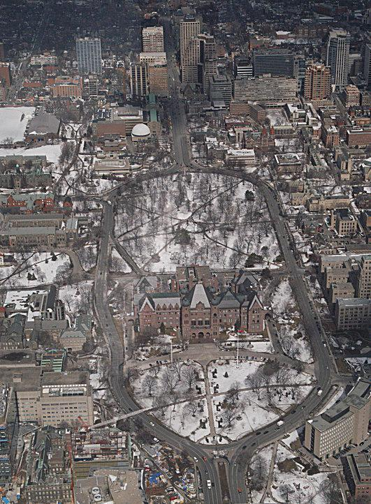 Queen's Park in Toronto, Ontario. As seen from the air.